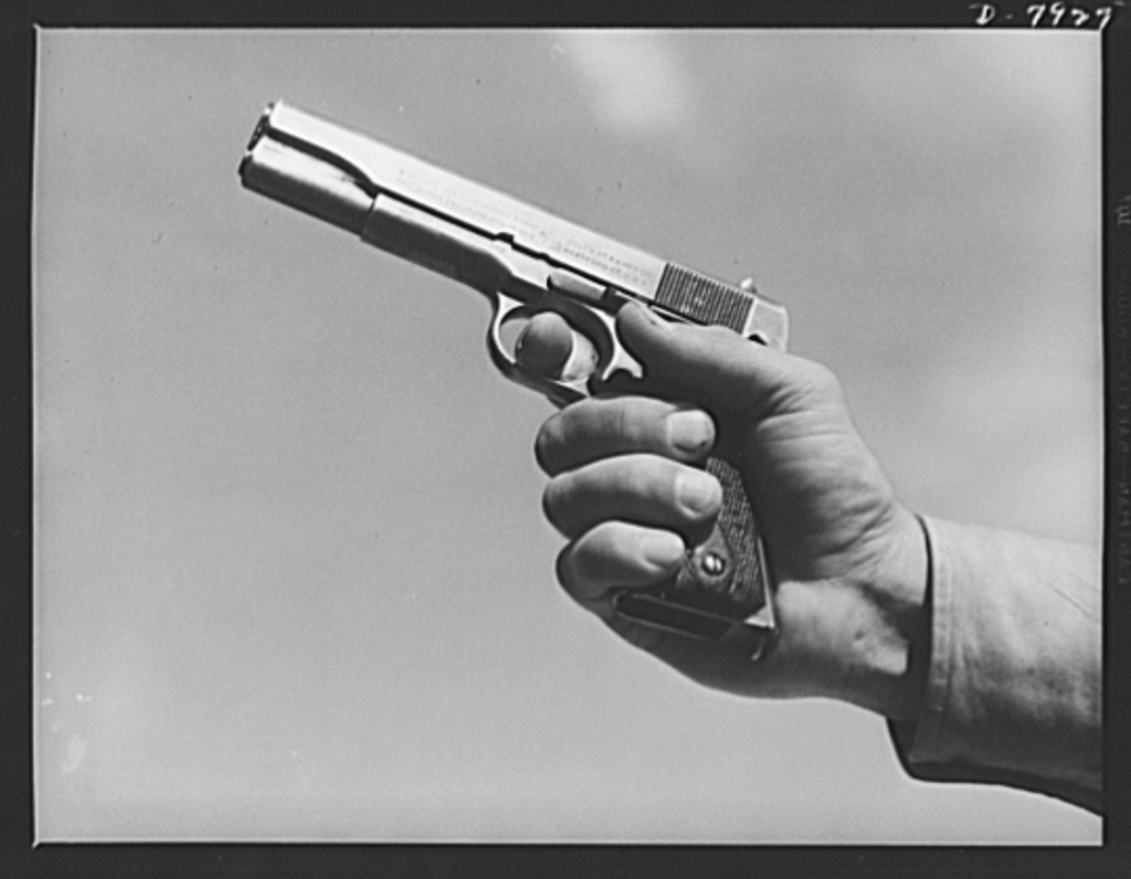 Title: Fort Knox. Colt automatic pistol. A soldier in training at Fort Knox, Kentucky, demonstrates the use of one of America's renowned weapons, a Colt pistol. Much changed in appearance from the gun that was famous on our frontiers nearly a century ago, this .45 caliber automatic is one of the standard weapons of our modern Army * Creator(s): Palmer, Alfred T., photographer * Related Names: United States. Office of War Information. * Date Created/Published: 1942 June. * Medium: 1 negative : safety ; 4 x 5 inches or smaller. * Reproduction Number: LC-USE6-D-007927 (b&w film neg.) * Call Number: LC-USE6- D-007927 [P&P] * Repository: Library of Congress Prints & Photographs Division Washington, DC 20540 * Notes: o Actual size of negative is C (approximately 4 x 5 inches). o Title and other information from caption card. o LOT 1866 (Location of corresponding print.) o Transfer; United States. Office of War Information. Overseas Picture Division. Washington Division; 1944. o More information about the FSA/OWI Collection is available at o Film copy on SIS roll 32, frame 543. * Subjects: o United States--Kentucky--Hardin County--Fort Knox. * Format: o Safety film negatives. * Collections: o Farm Security Administration/Office of War Information Black-and-White Negatives * Part of: Farm Security Administration - Office of War Information Photograph Collection (Library of Congress) * Bookmark This Record